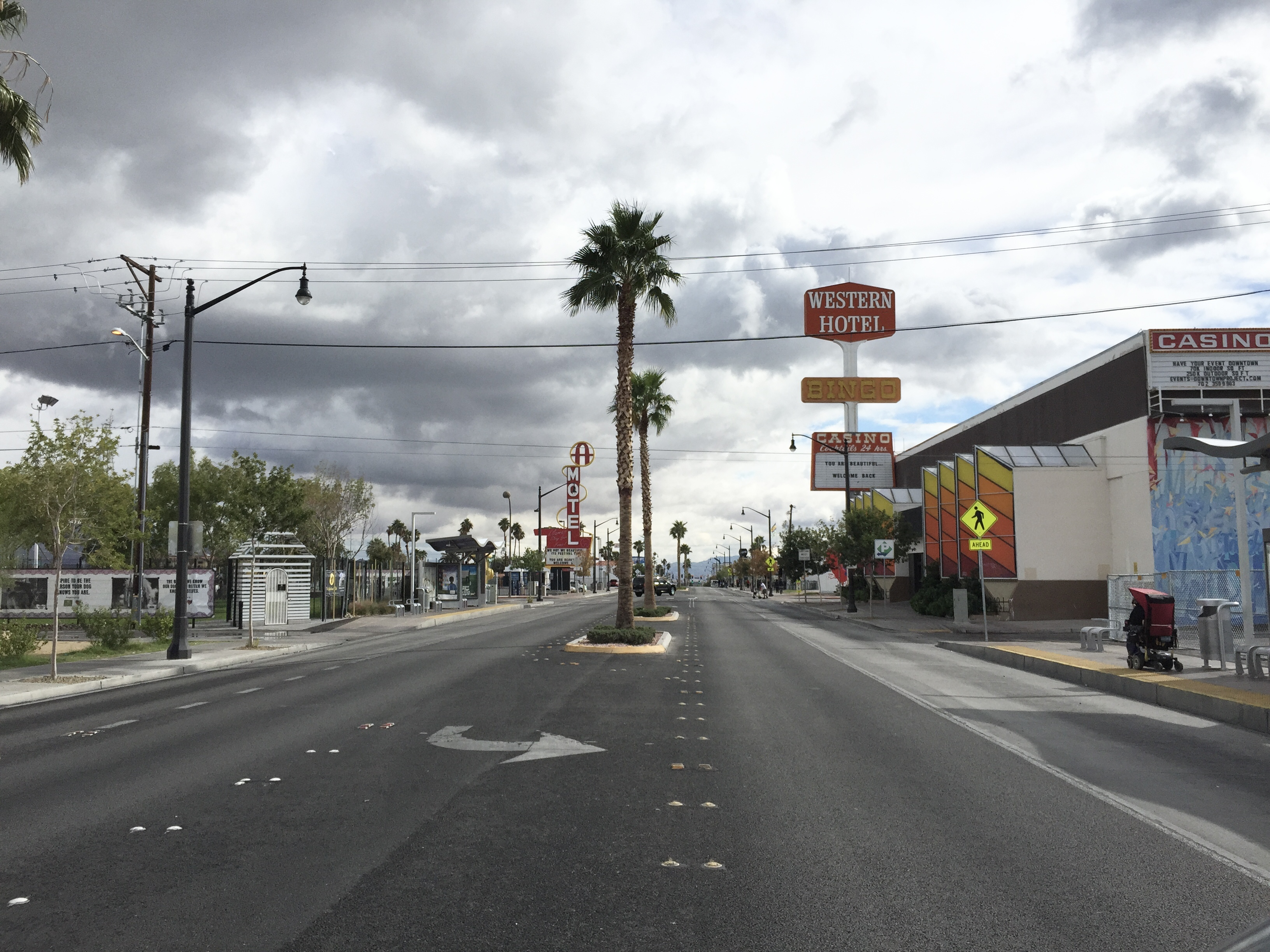 View south from the north end of Nevada State Route 582 (Fremont Street) in downtown Las Vegas, Nevada